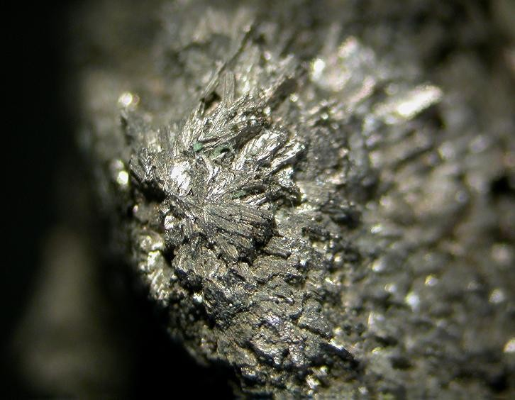 Maucherite (Field of view 7 mm) Locality: Hans Seidel Shaft (Graf von Hohenthal Shaft), Helbra, Mansfeld Basin, Saxony-Anhalt, Germany